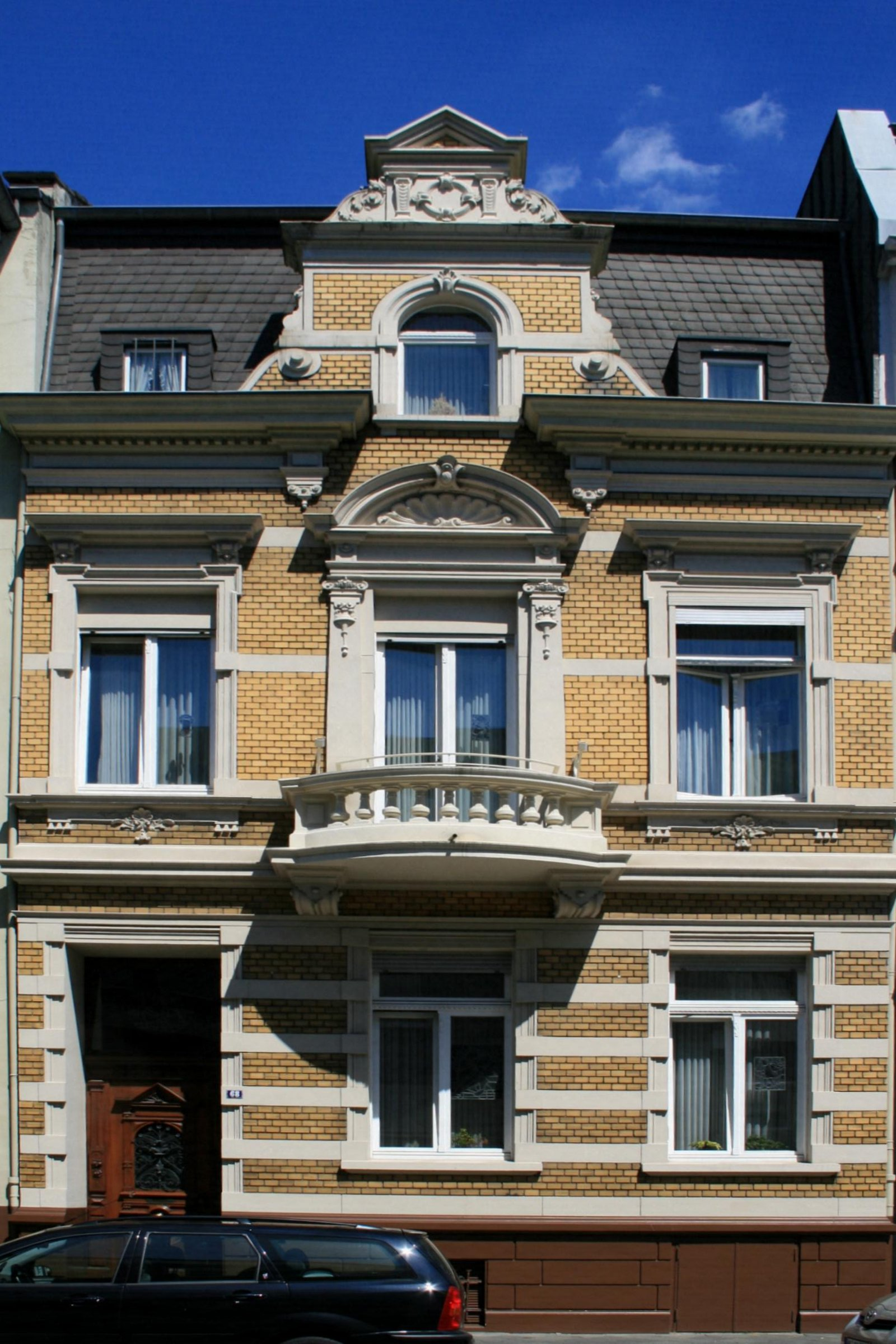 Cultural heritage monument No. H 074 in Mönchengladbach